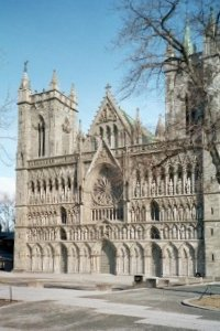 Nidaros Cathedral West Front.